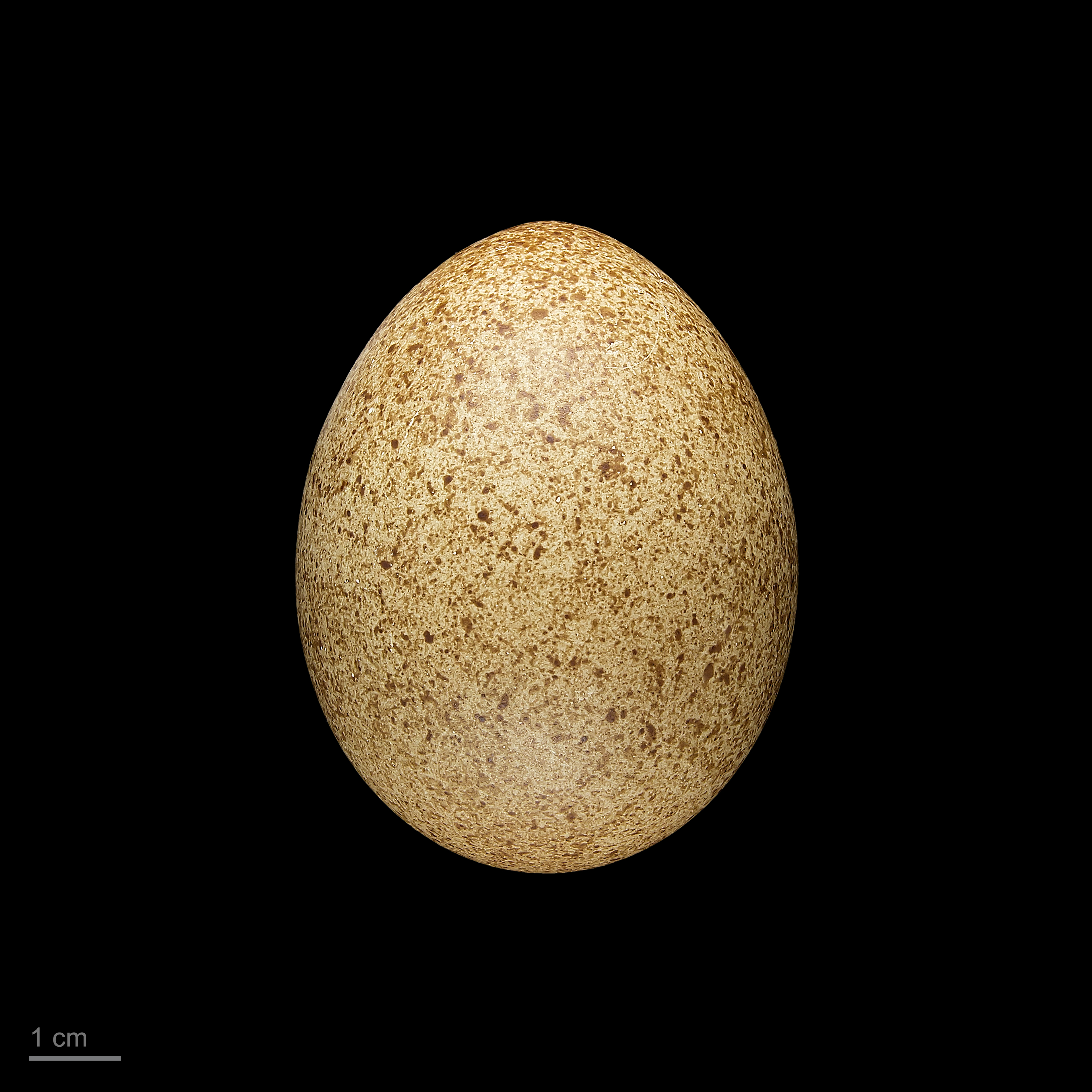 Egg of Temminck's tragopan Collection of Jacques Perrin de Brichambaut.